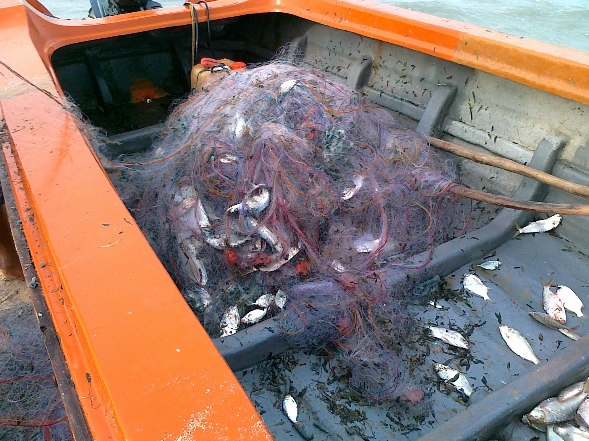 கடல் தொழில் கச்சாய்